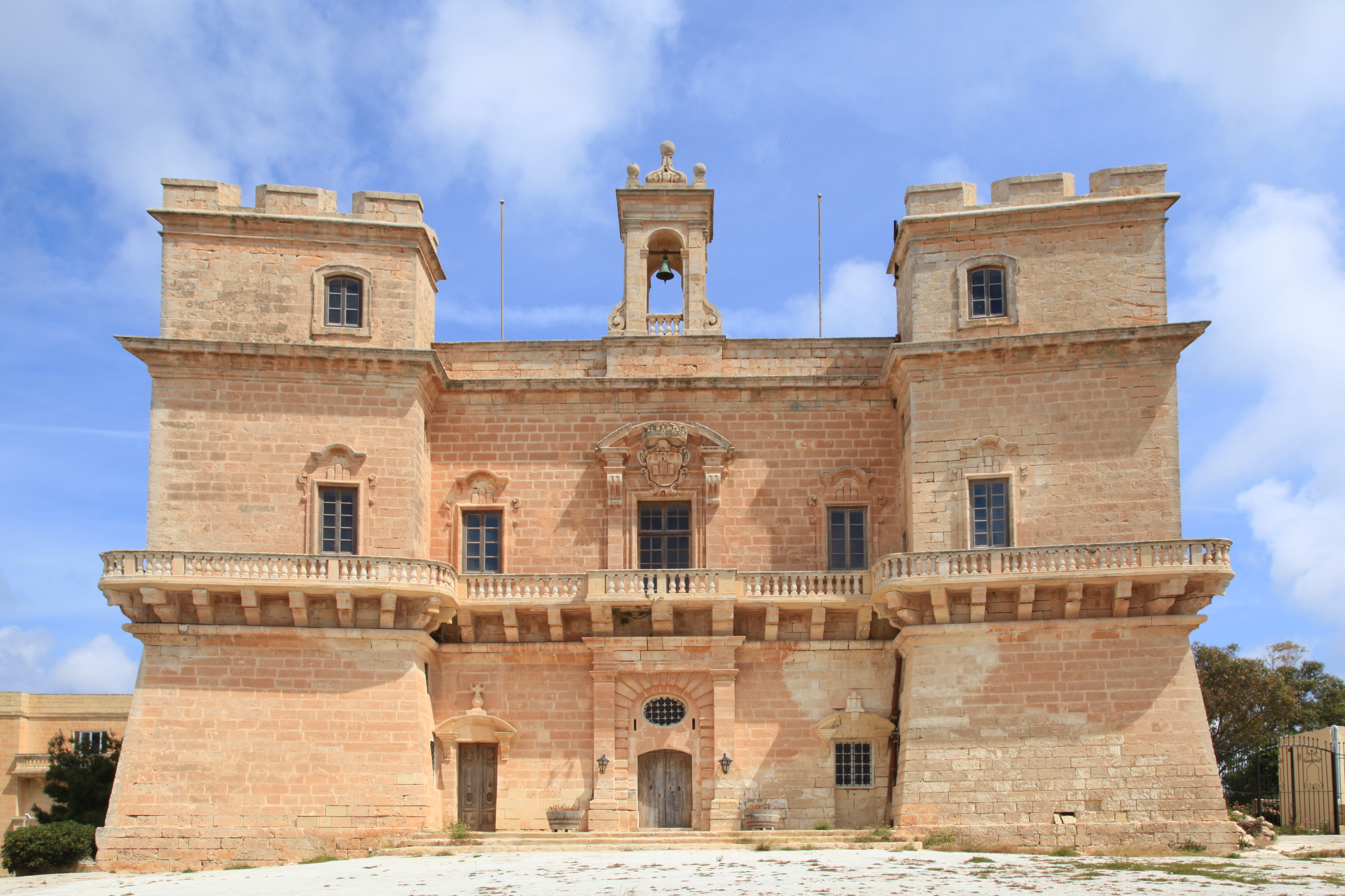 Selmun Palace at Triq Selmun in Mellieħa, Malta